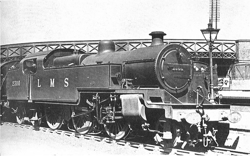 A 2-6-4 Tank Engine for Fast Long-distance Suburban Service, LMS